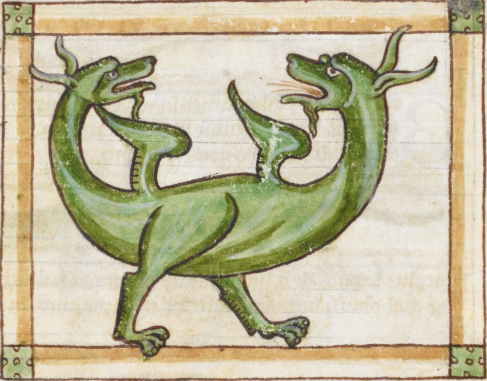 Amphisbene - Bestiary Harley MS 3244, ff 36r-71v